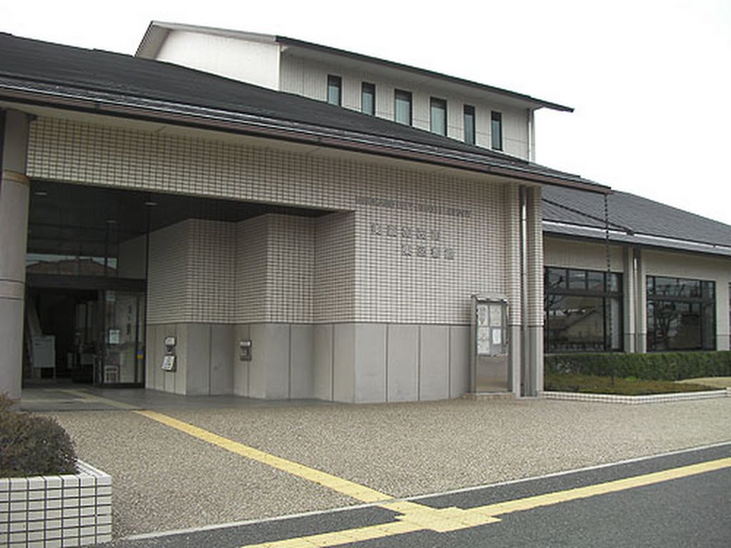 This is Higashi Library of Minokamo Municipal Library in Minokamo, Gifu, Japan.